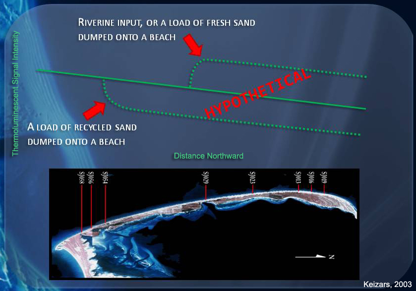 explanation as to how the TL technique works